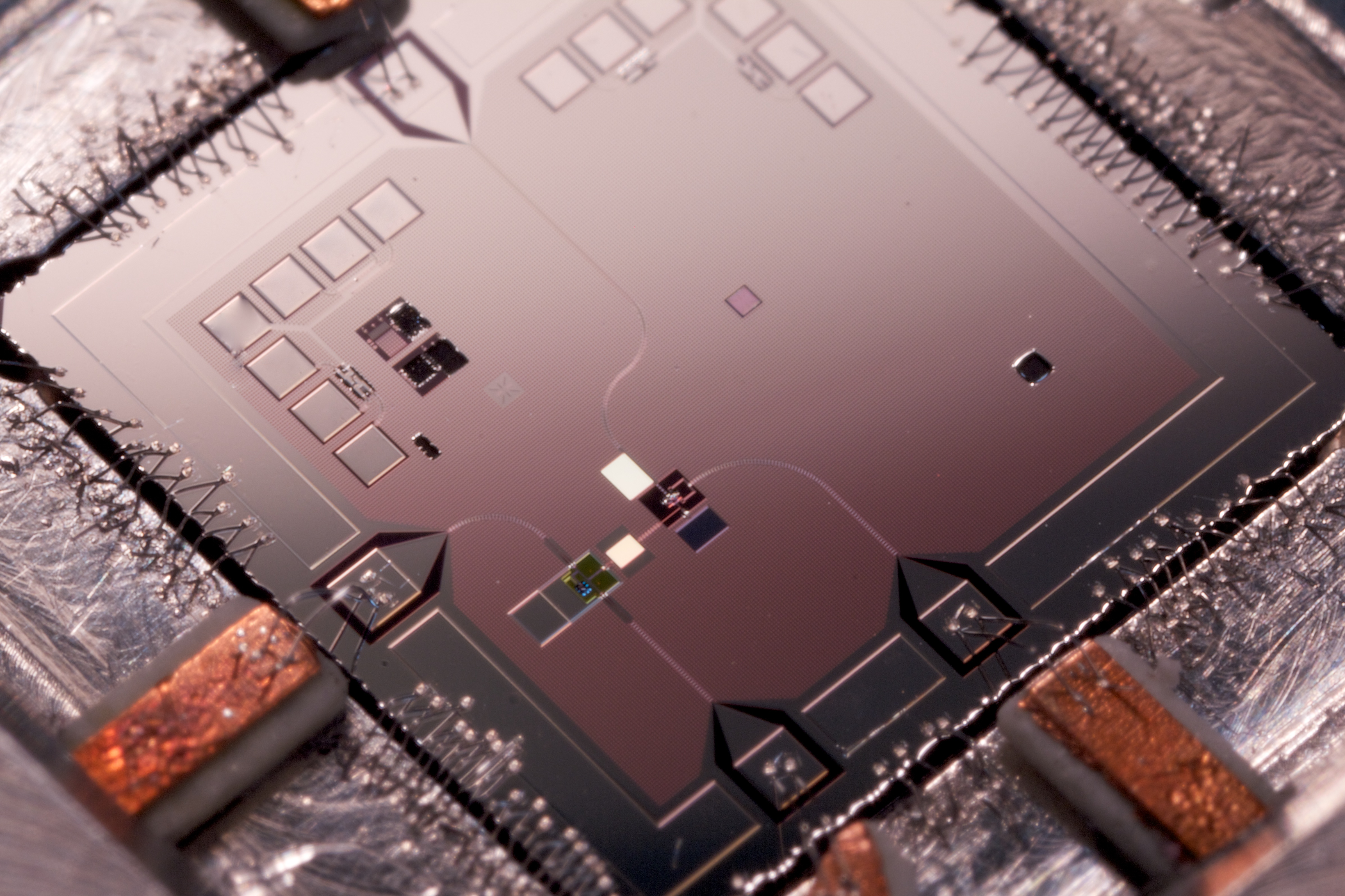 Photograph of a quantum machine. The mechanical resonator which was placed in a superposition is situated in the bottom left of the chip. The smaller white rectangle is the coupling capacitor between the mechanical resonator and the qubit.